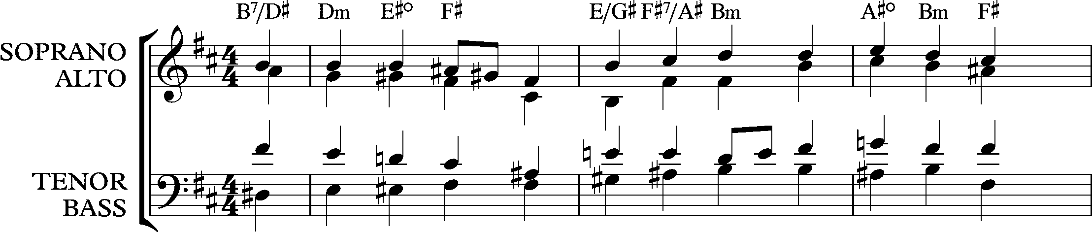 Bach St Matthew Passion No 46 Chorale Herzliebster Jesu different harmonization